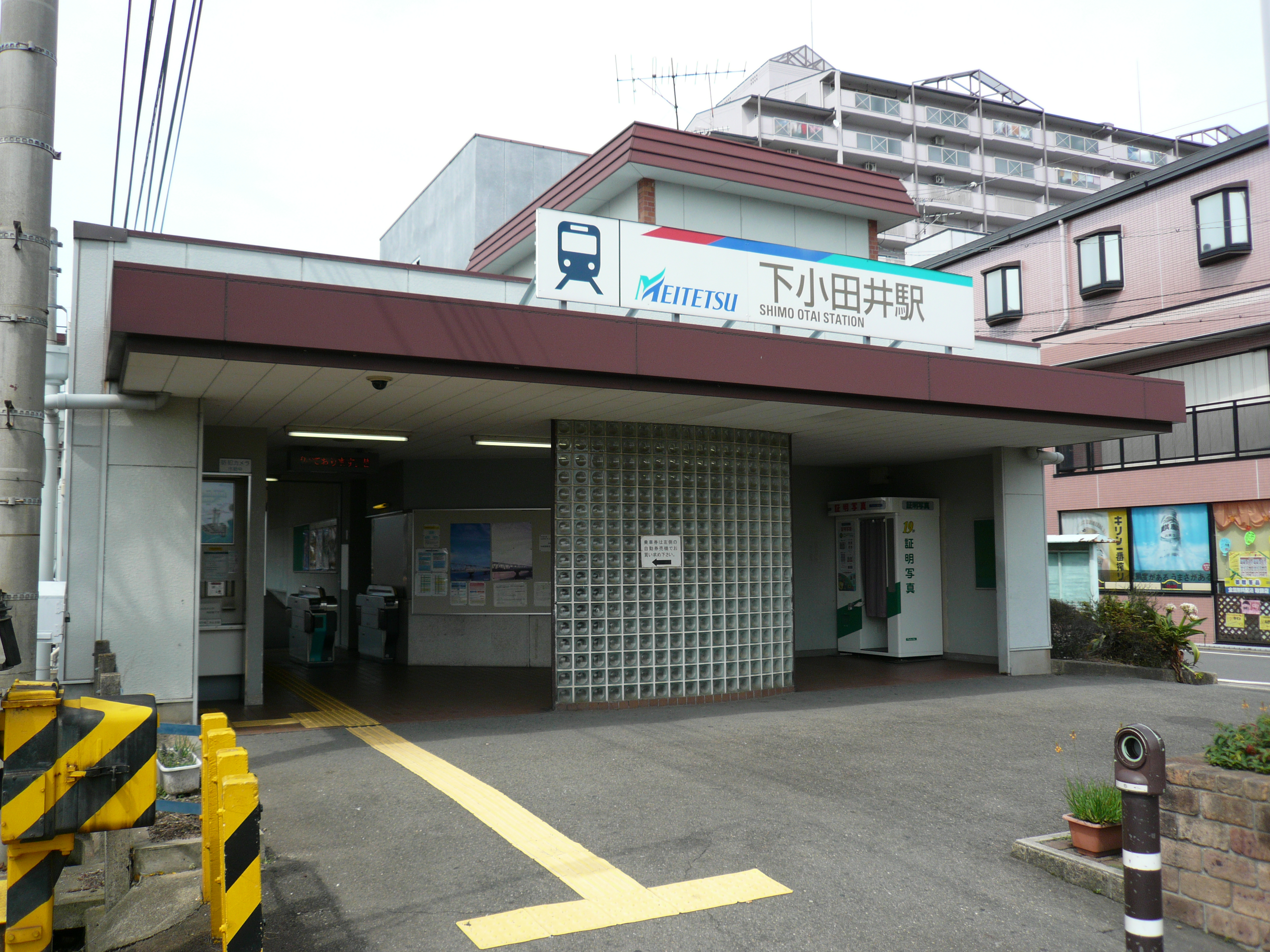 Meitetsu Shimo Otai Station.